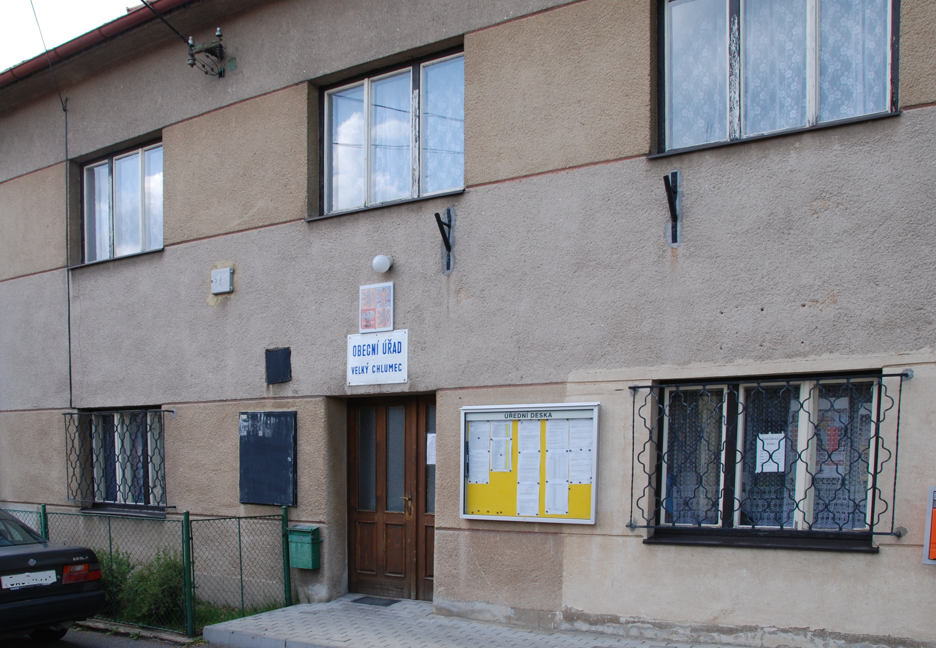 This photograph was taken within the scope of the second year of the 'Czech Municipalities Photographs' grant. Obecní úřad